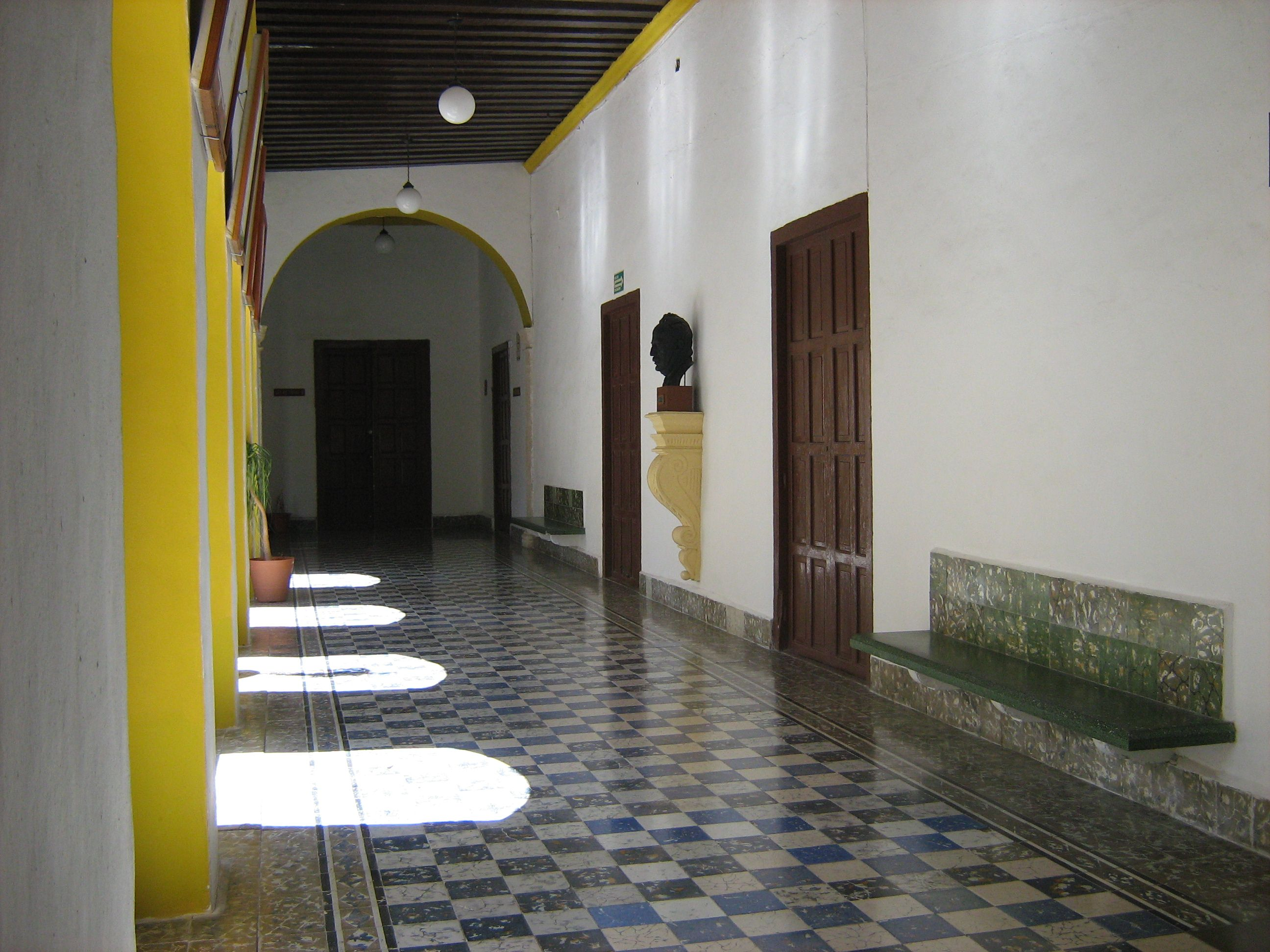 Small statue (bust) of Jose Vasconcelos at the Instituto Campechano, Mexico.